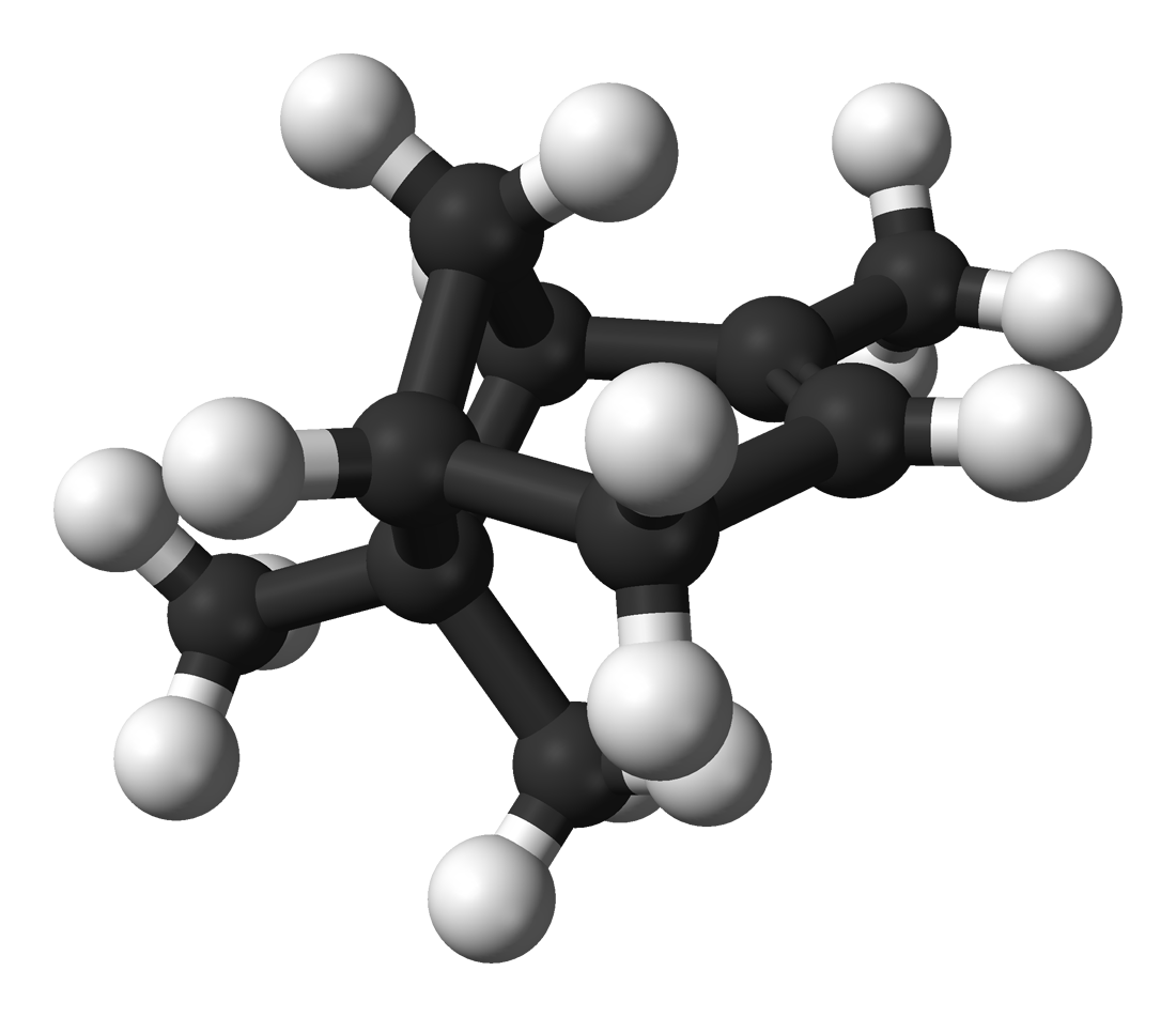 Ball-and-stick model of the (+)-α-pinene molecule